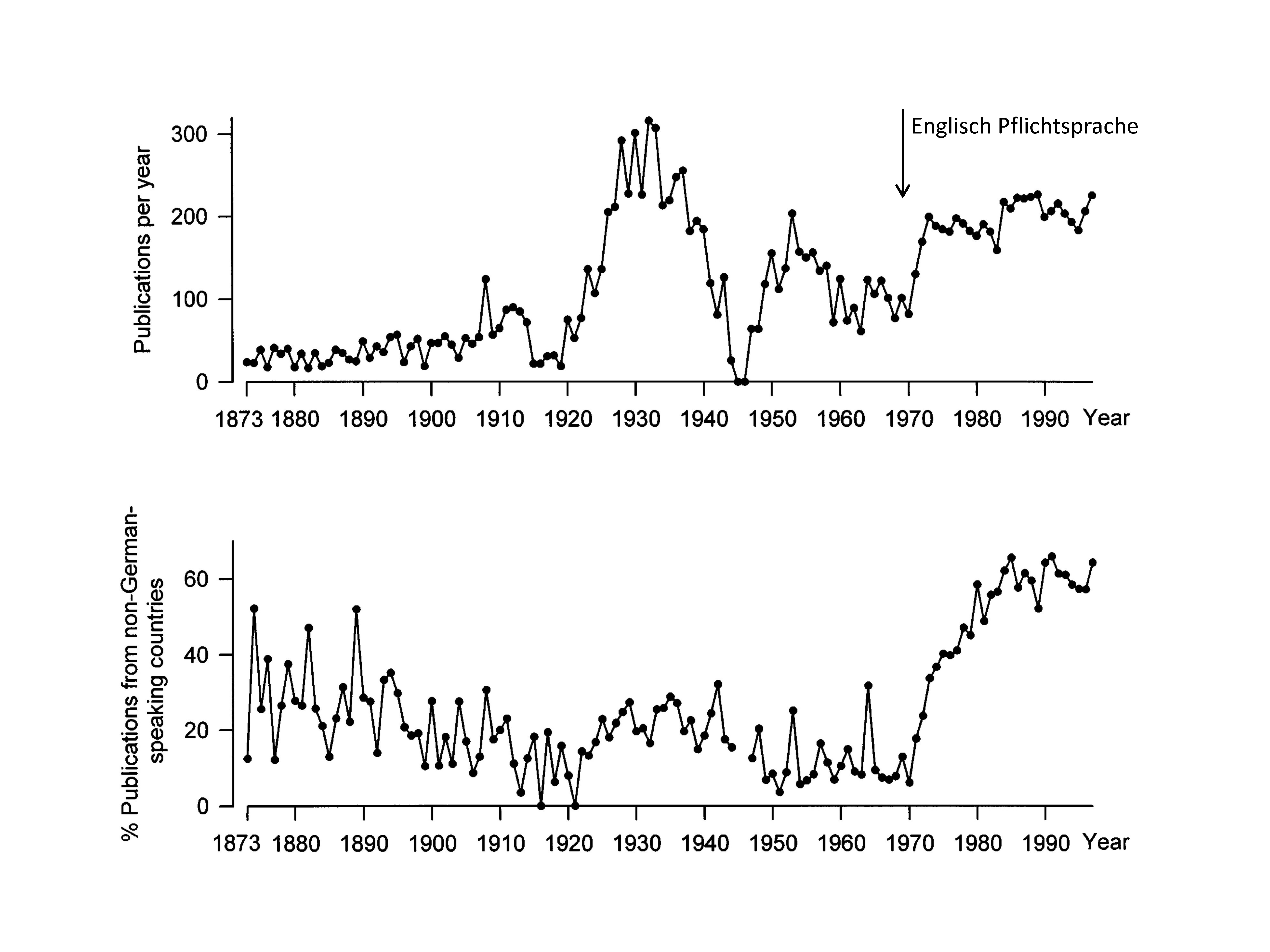 Publication statistics of Naunyn-Schmiedeberg's Archives